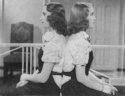 Silvia Legrand and her twin sister Mirtha Legrand in the early 1940s